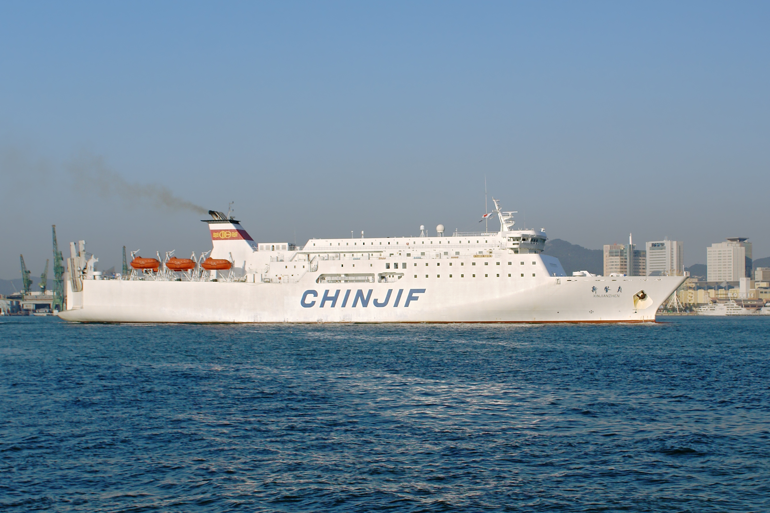 Xinjianzhen view from the Kobe Port Terminal of Kobe Port, Kobe Hyogo prefecture, Japan